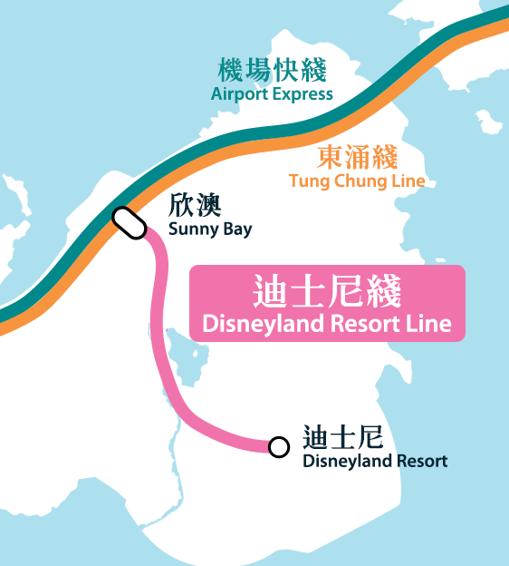 MTR Disneyland Resort Line Geograpical Map